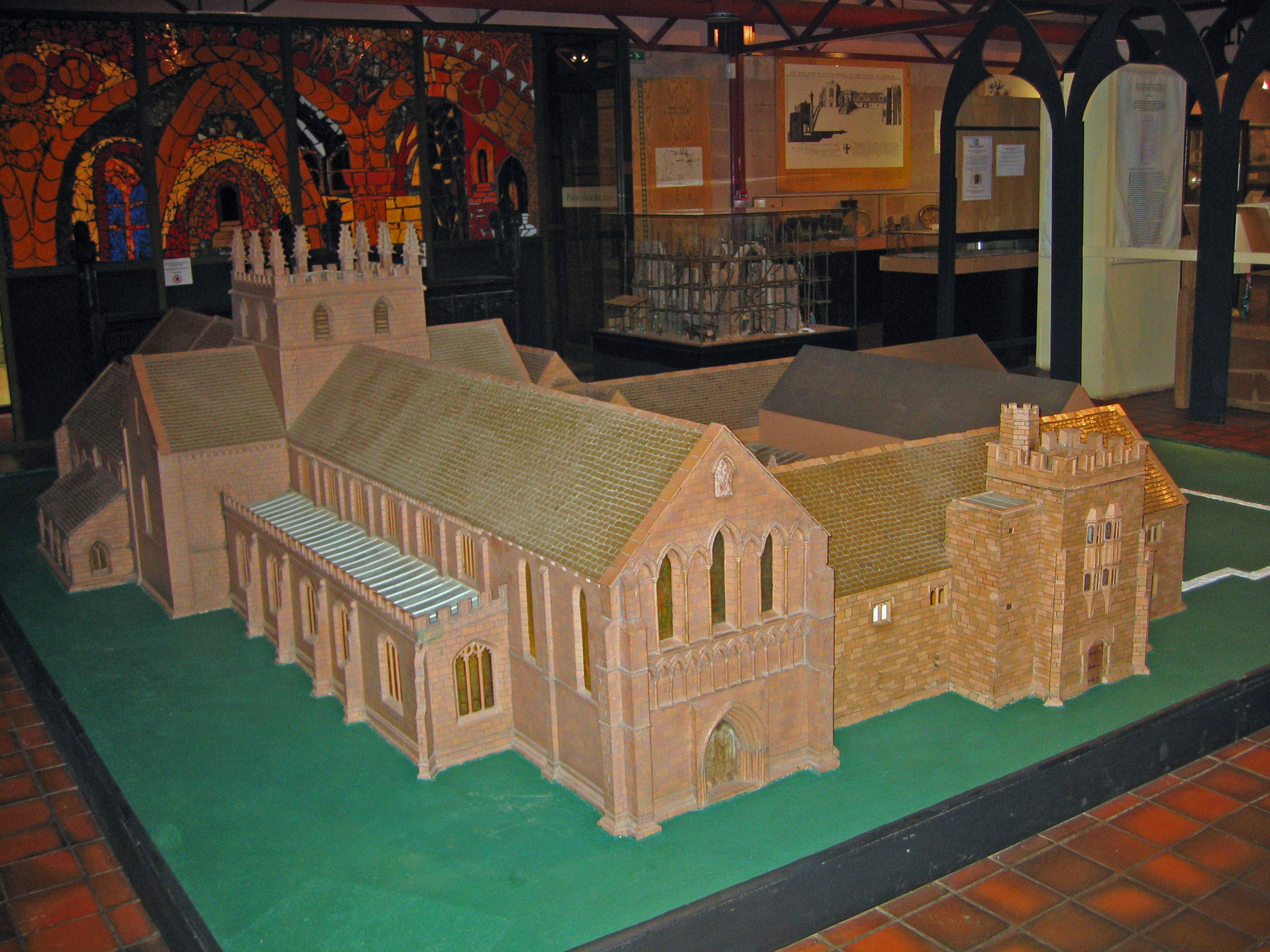 Photograph of a model of Norton Priory near Runcorn, Cheshire, England, in its museum showing how it would probably have looked in the 16th century